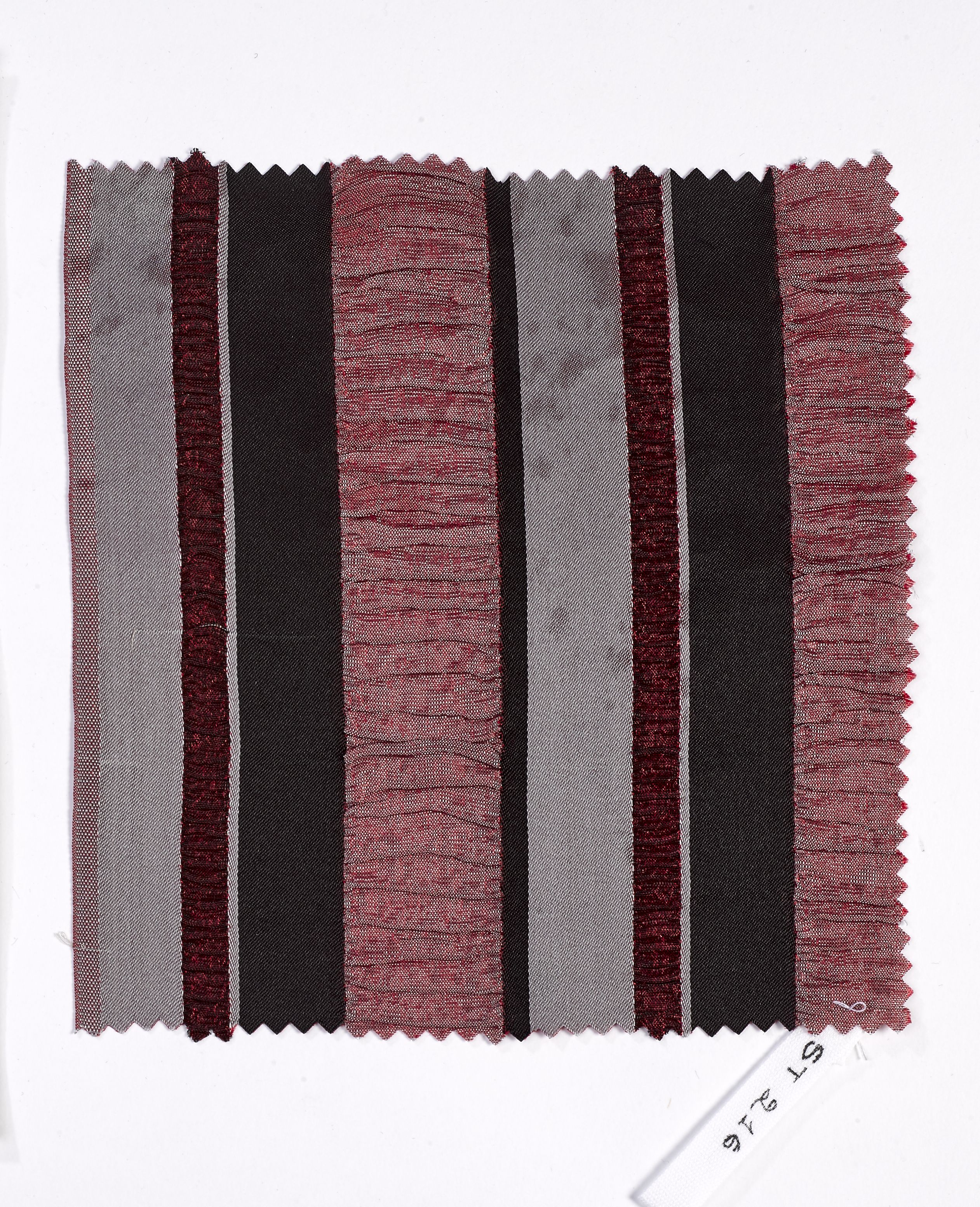 Woven Fabric